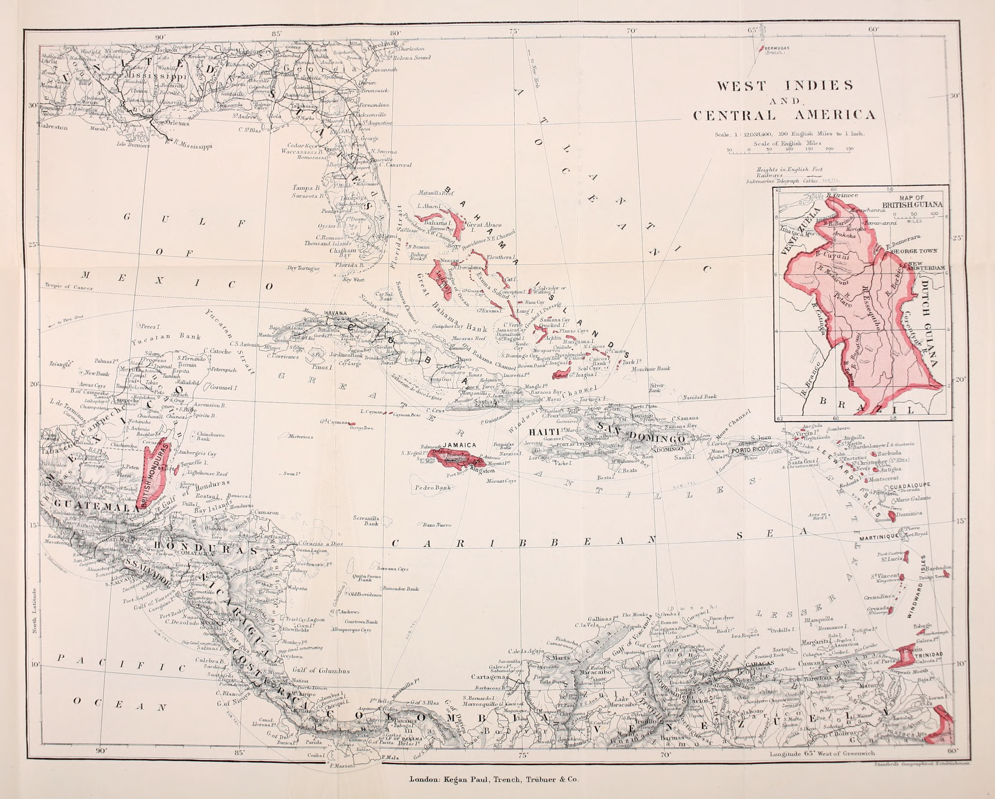 British colonies in West Indies and Central America in 1900.